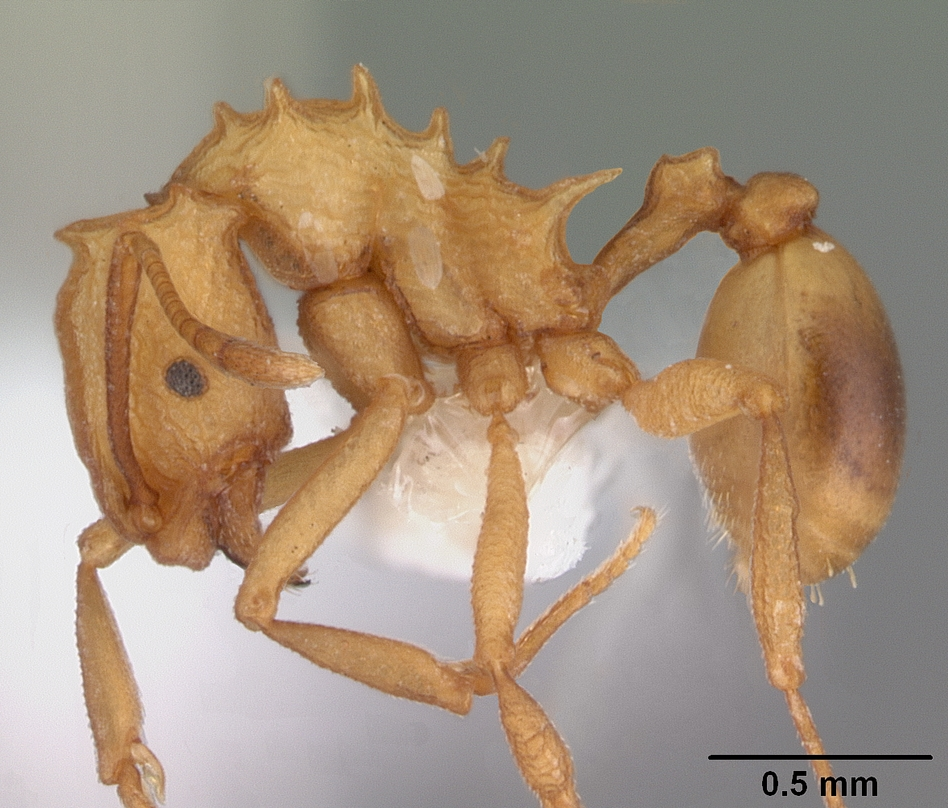 Profile view of ant Proatta butteli specimen casent0010836.